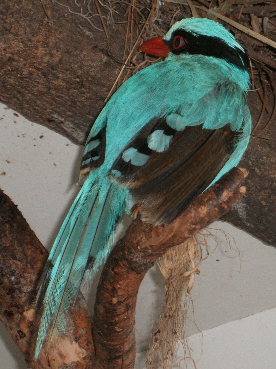 Green magpie (Cissa chinensis) at the National Zoo in Washington DC.